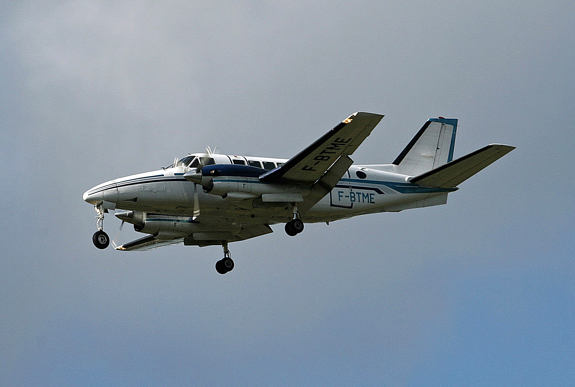 F-BTME Beech 99 Coventry 05-09-2007